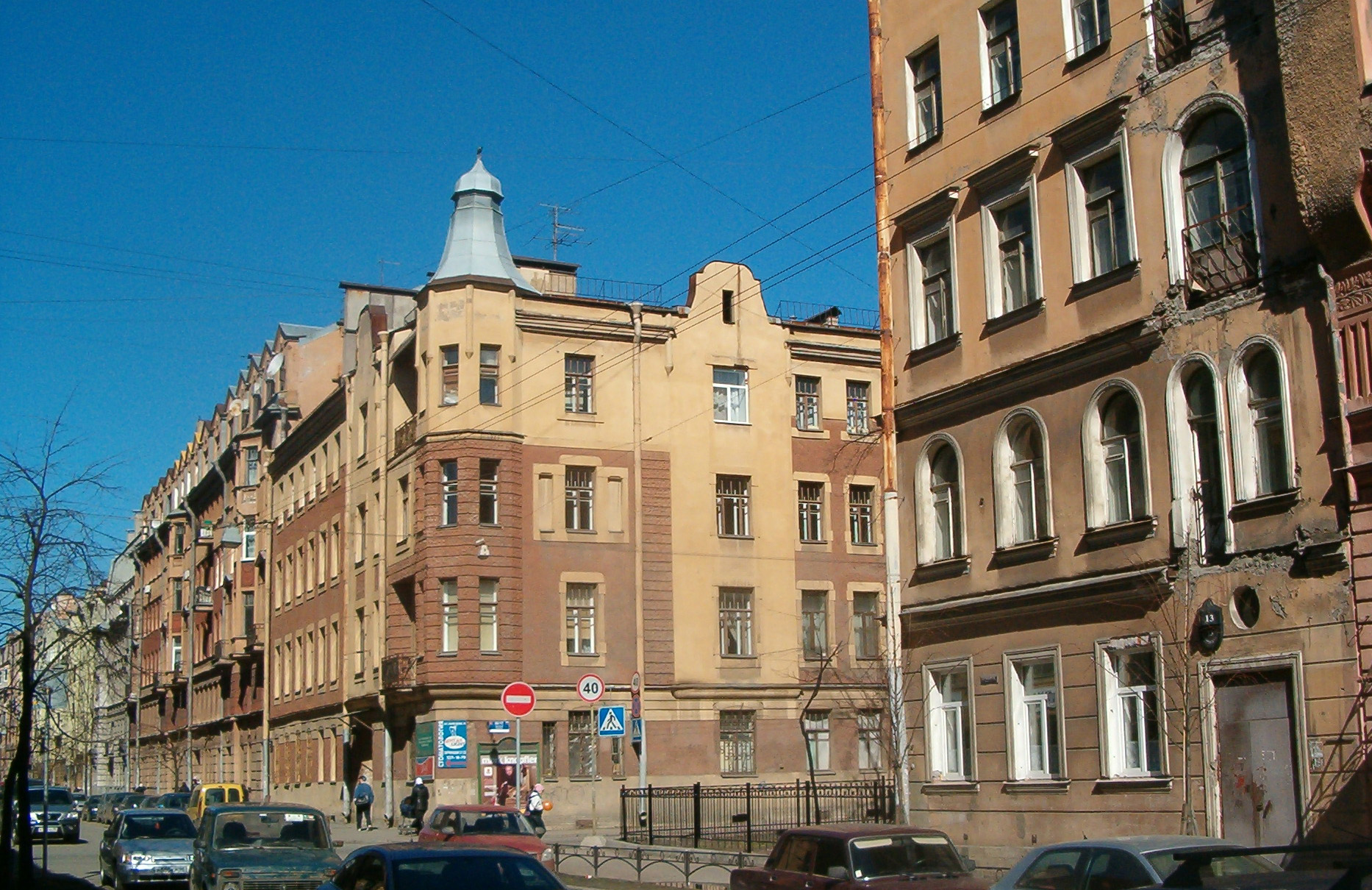 Gatchinskaya street, crossing with the Malyi avenue (Petrograd side, Saint-Petersburg, Russia)